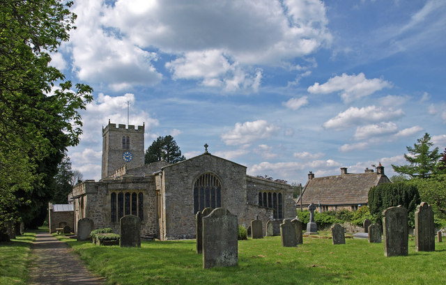 St. Andrew Church, Grinton Viewed from the entrance path through the graveyard.